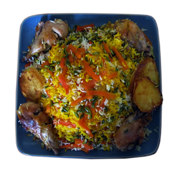 Havij polo-a Persian dish